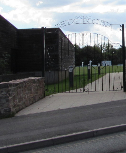 Entrance gate to the County Ground, Exeter